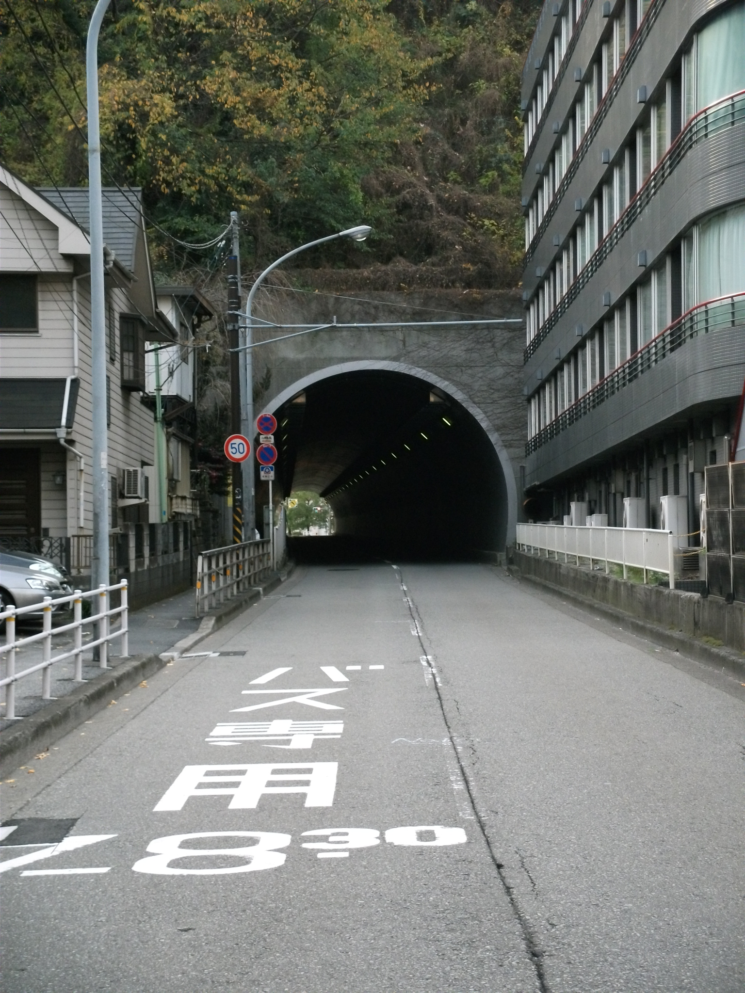 Yokohama Dai2-Yamate-tunnel